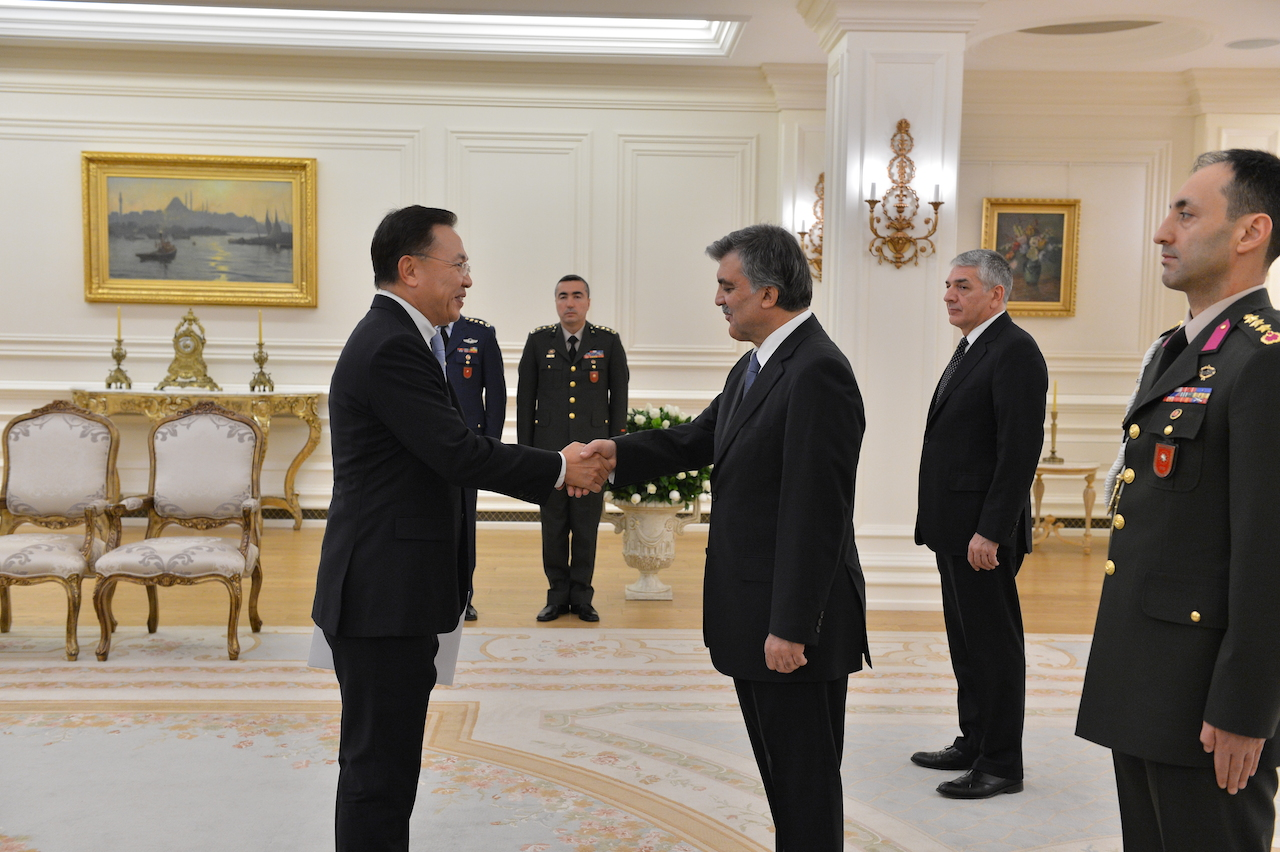 Ambassador Tharit Charungvat presenting Letter of Credentials to H.E. Abdullah Gul, President of Republic of Turkey, 25 December 2013